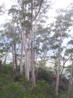 Blue Mountains Ash, at Narrow Neck, Katoomba